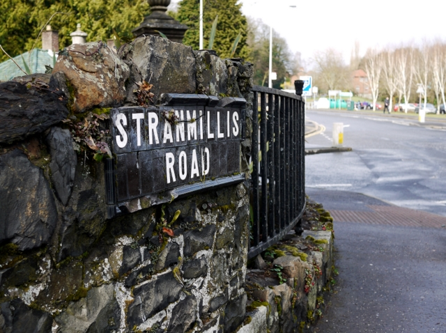 Street Sign, Belfast Tiled street sign on the Stranmillis Road. Slightly battered.